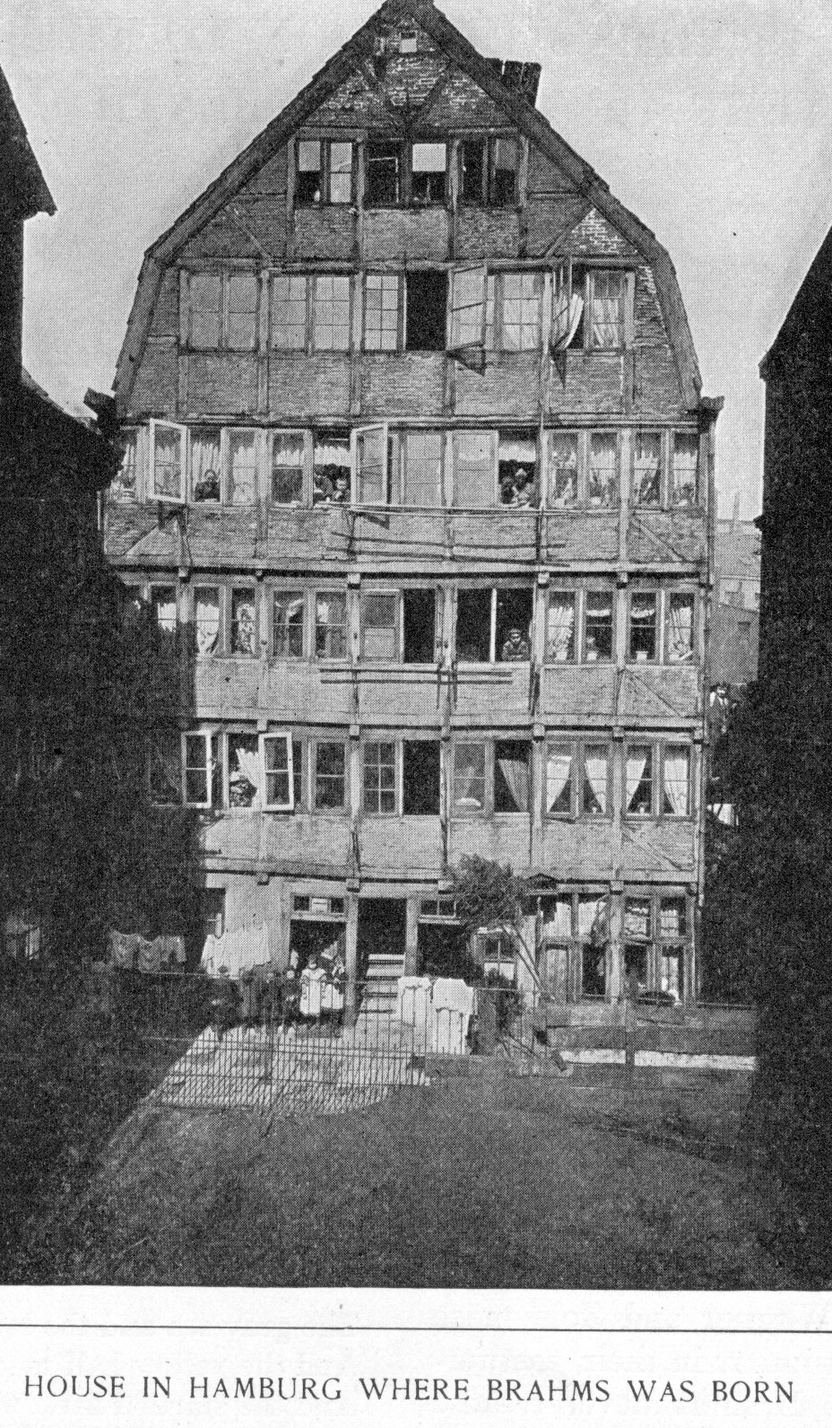 Published in Modern Music and Musicians, University Society, New York, 1918. No. 24 Specksgang, later renumbered to No. 60 Speckstraße, Hamburg, photographed in 1891. Brahms family lived behind the two double windows on the left at first floor level. The building was destroyed by bombing in 1943.[1] Originalphotogaphie heute im Besitz des Museums für Hamburgische Geschichte